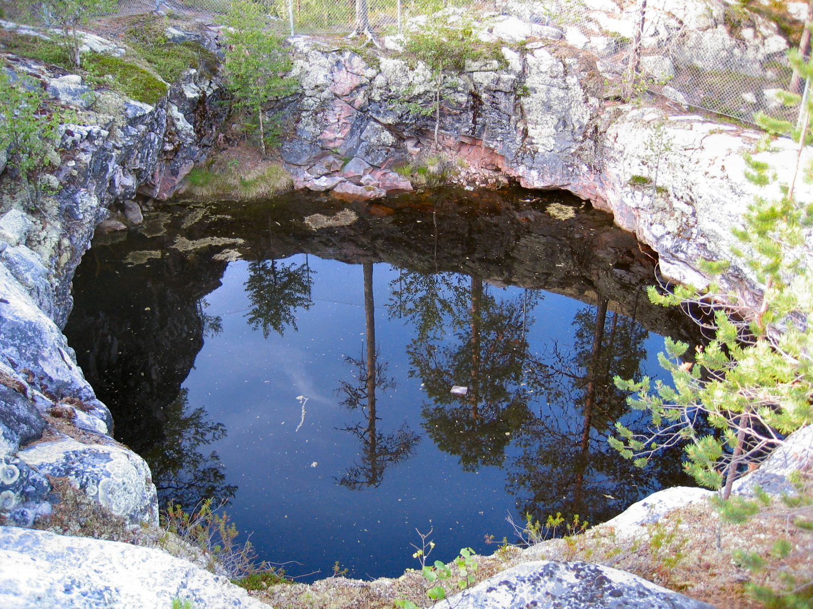 Giants kettle Juomapata, one of the largest in the world (largest in Finland). Located in Aholanvaara village, in Salla, Finland. Diameter of the kettle is from 13 metres to 15 metres, and it is from 10 metres to 15 metres deep.